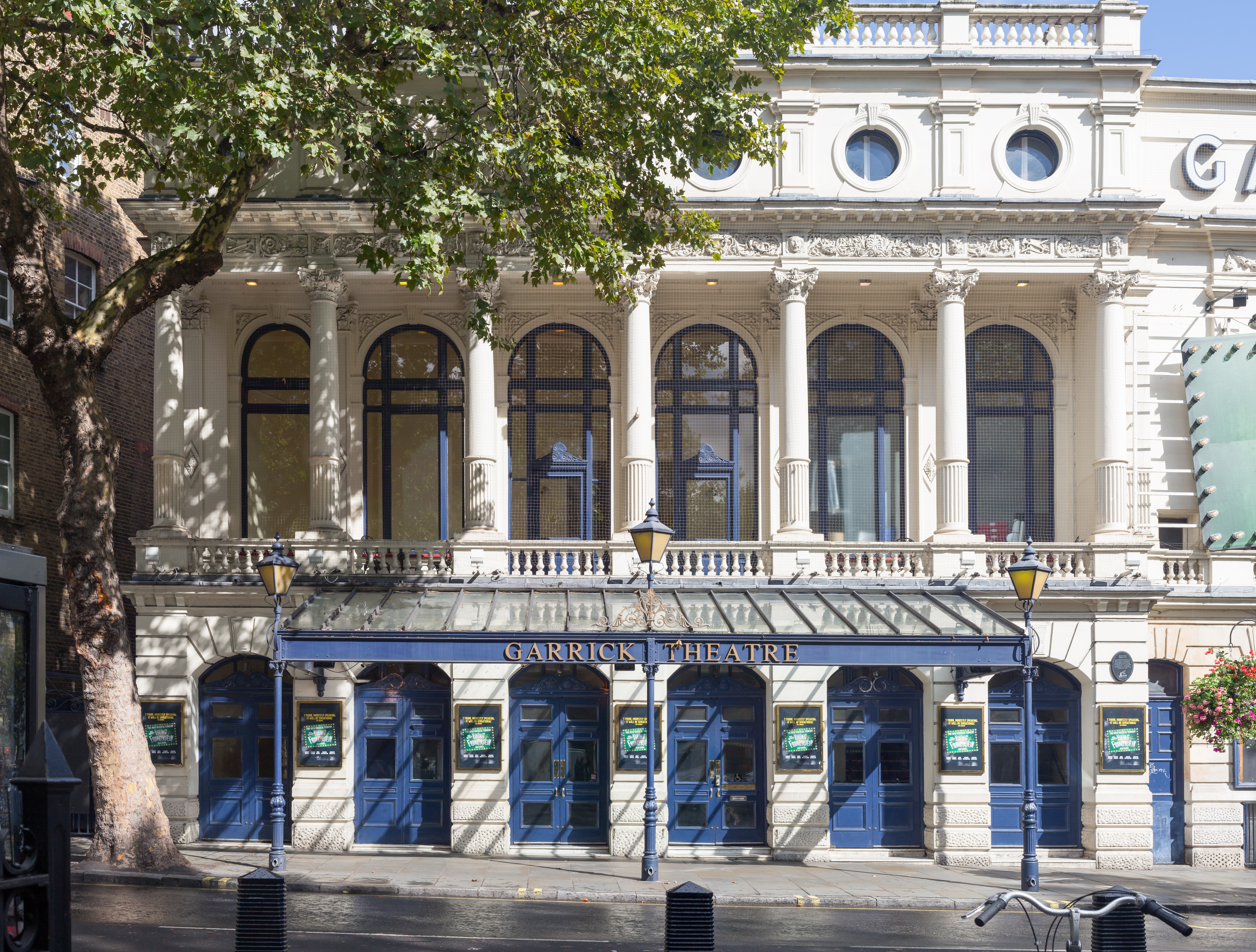 Garrick Theatre Wikidata has entry Q3758423 with data related to this item.